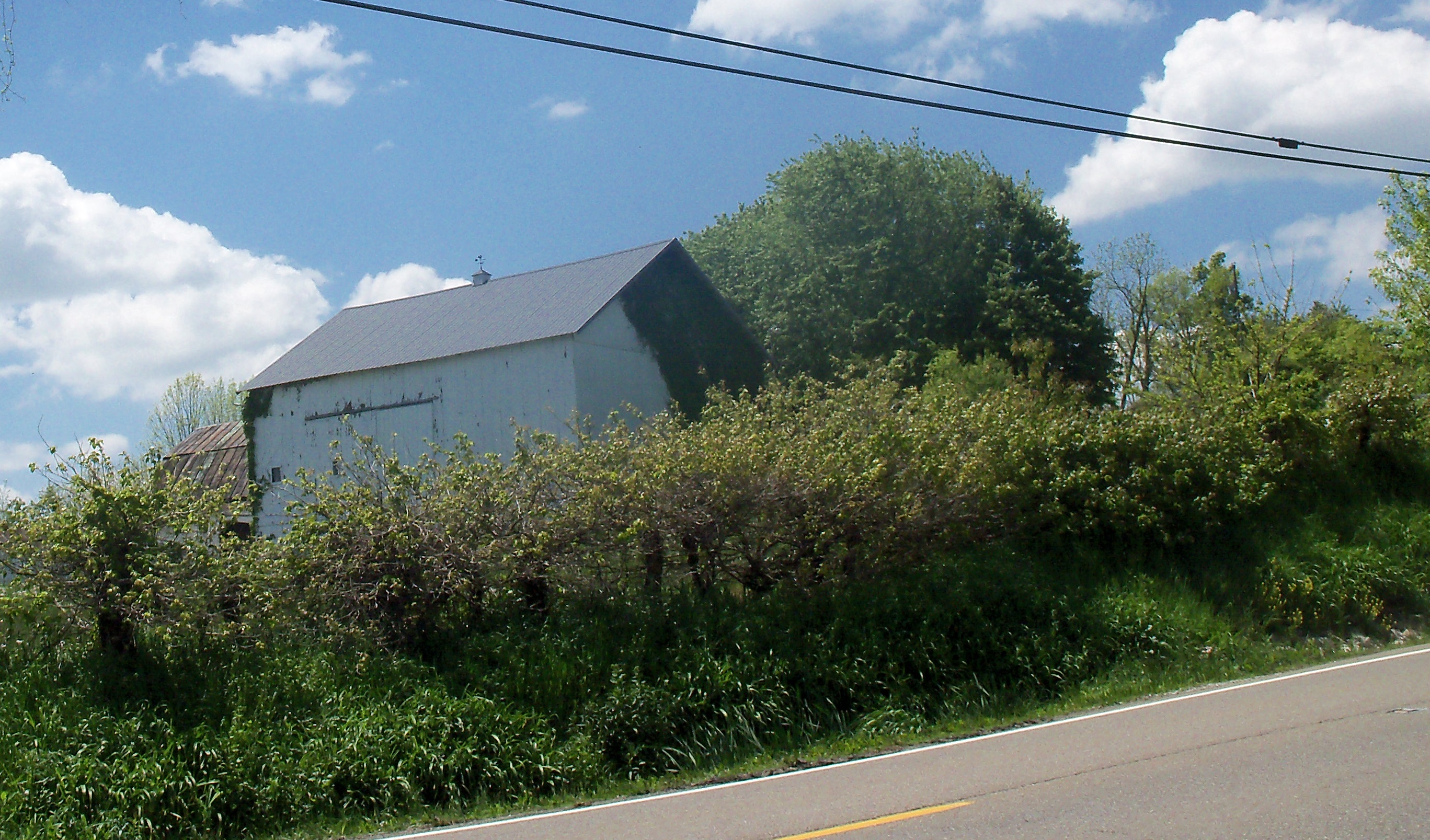 This white barn east of Nashville, Ohio is slowly being covered by ivy